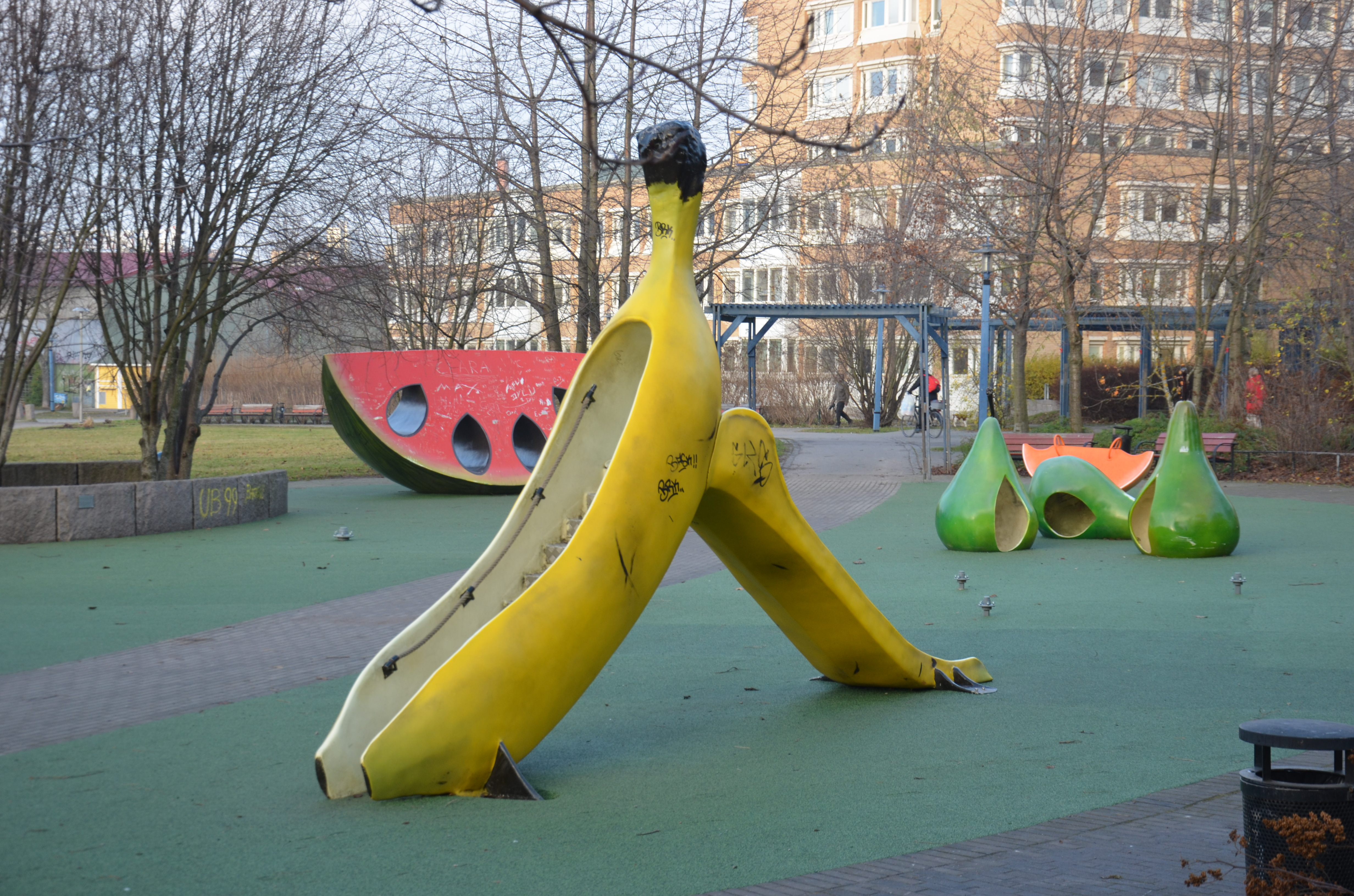 Johan Ferner Ströms Fruktparken i Liljeholmen i Stockholm